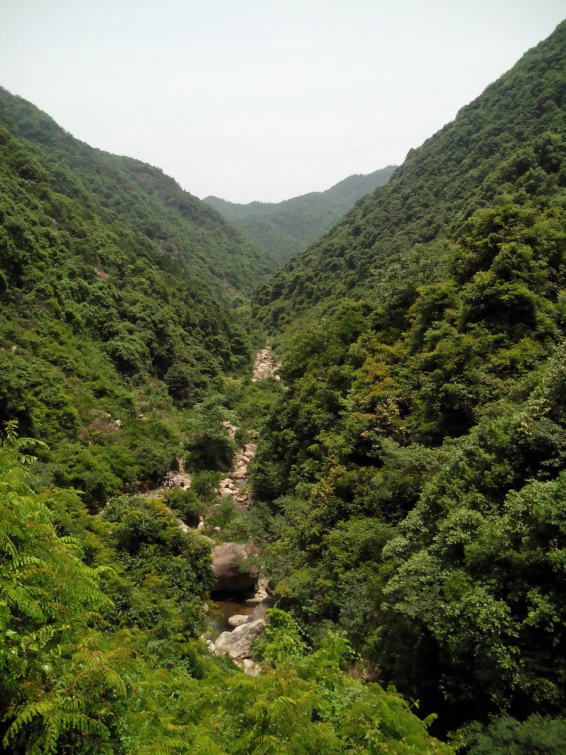 201406 A Valley of Yancang Mountain, Ninghai